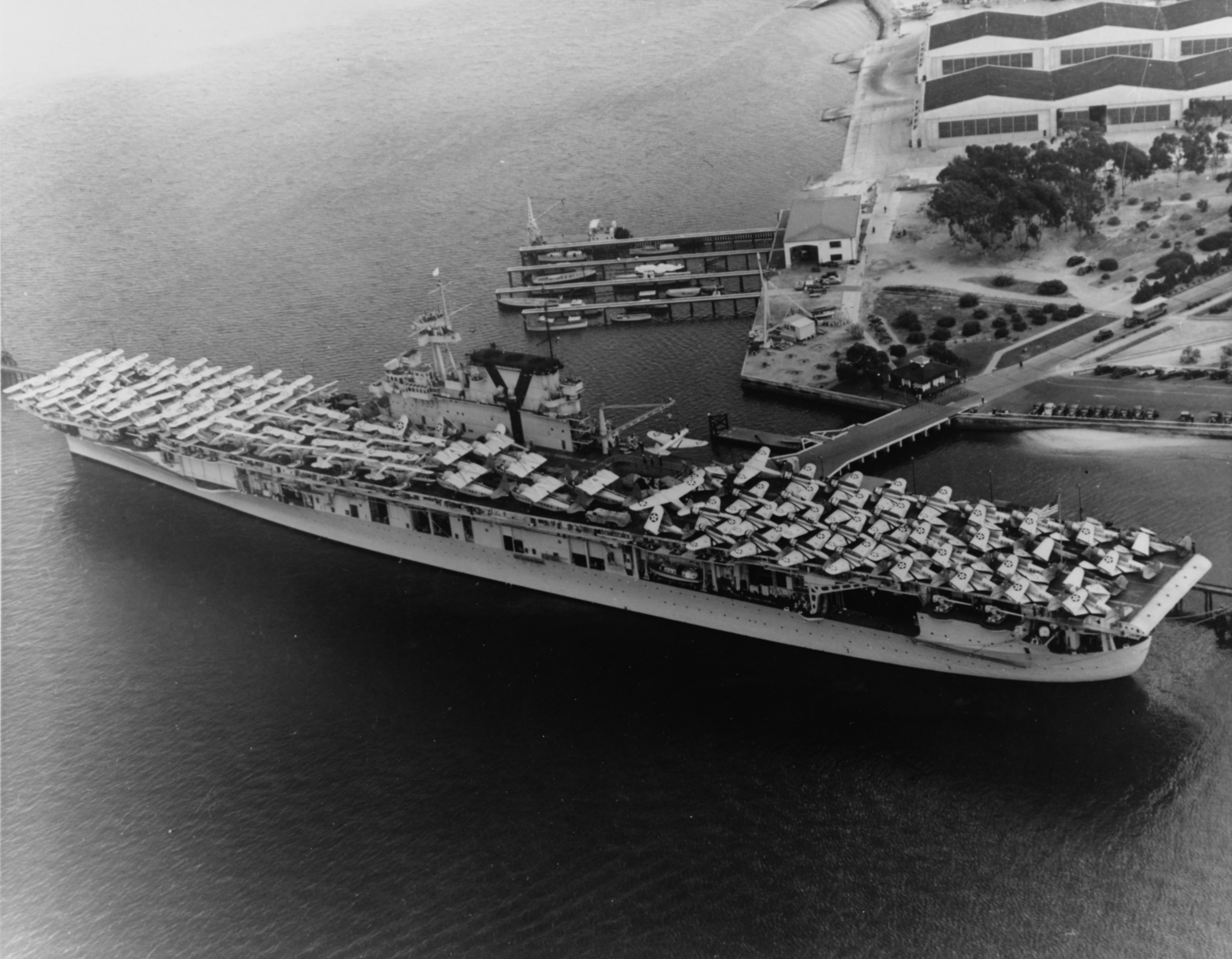 The U.S. Navy aircraft carrier USS Yorktown (CV-5) at Naval Air Station North Island, San Diego, California (USA), in June 1940, embarking aircraft and vehicles prior to sailing for Hawaii. Aircraft types on her flight deck include TBD-1, BT-1, SBC-3, F3F-2, F3F-3, SB2U, JRF, J2F and JRS-1. Some of these planes were on board for transportation, while others were members of the ship's air group. Three Torpedo Squadron Five (VT-5) TBDs at the after end of the flight deck are painted in experimental camouflage schemes tested during Fleet Problem XXI.